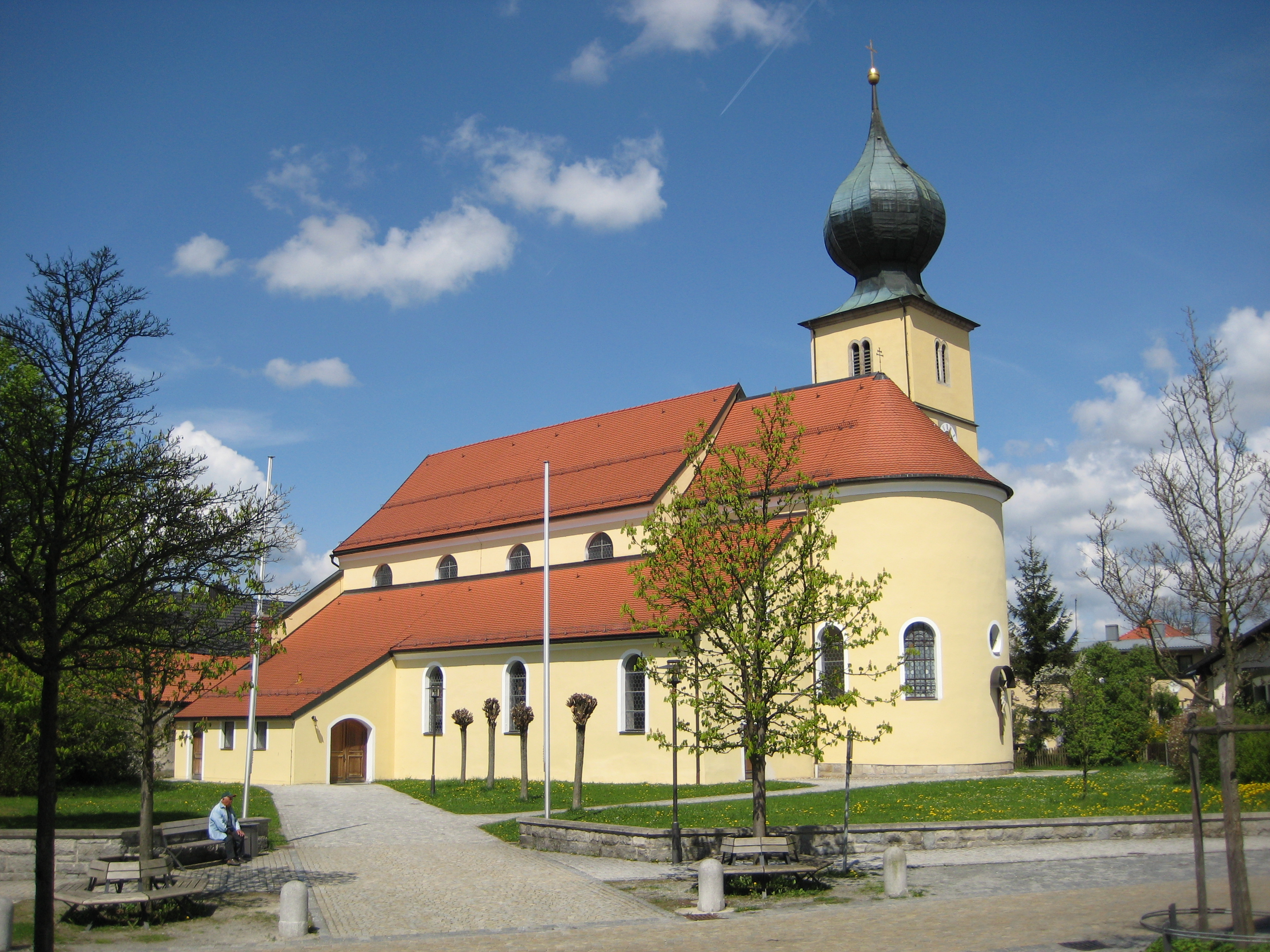 Church in Ruhmannsfelden, Lower Bavaria